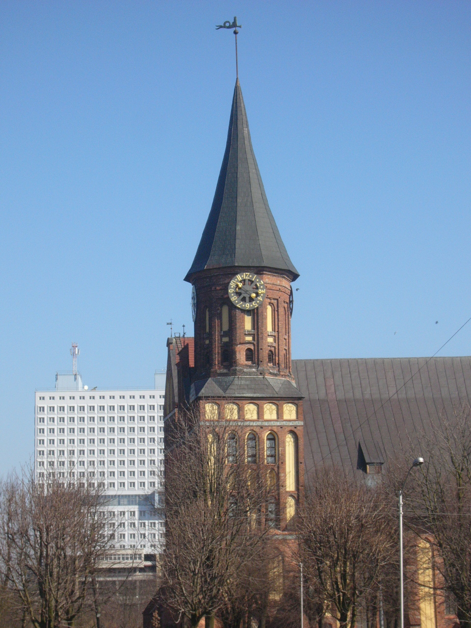 Koenigsberg cathedral and House of Soviets in Kaliningrad. View from Staropregolskaya quay.